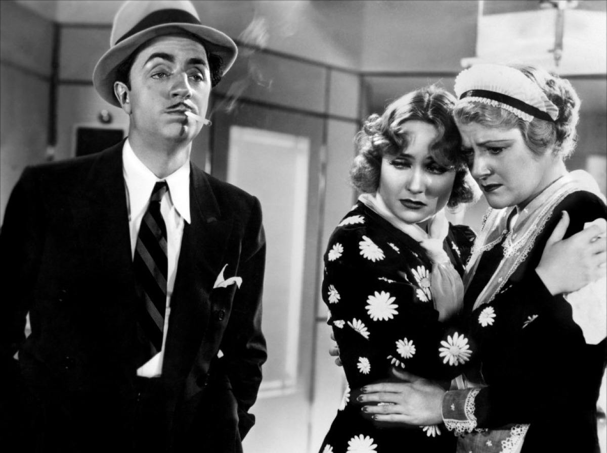 L. to R. : William Powell, Carole Lombard & Jean Dixon in My Man Godfrey - cropped screenshot